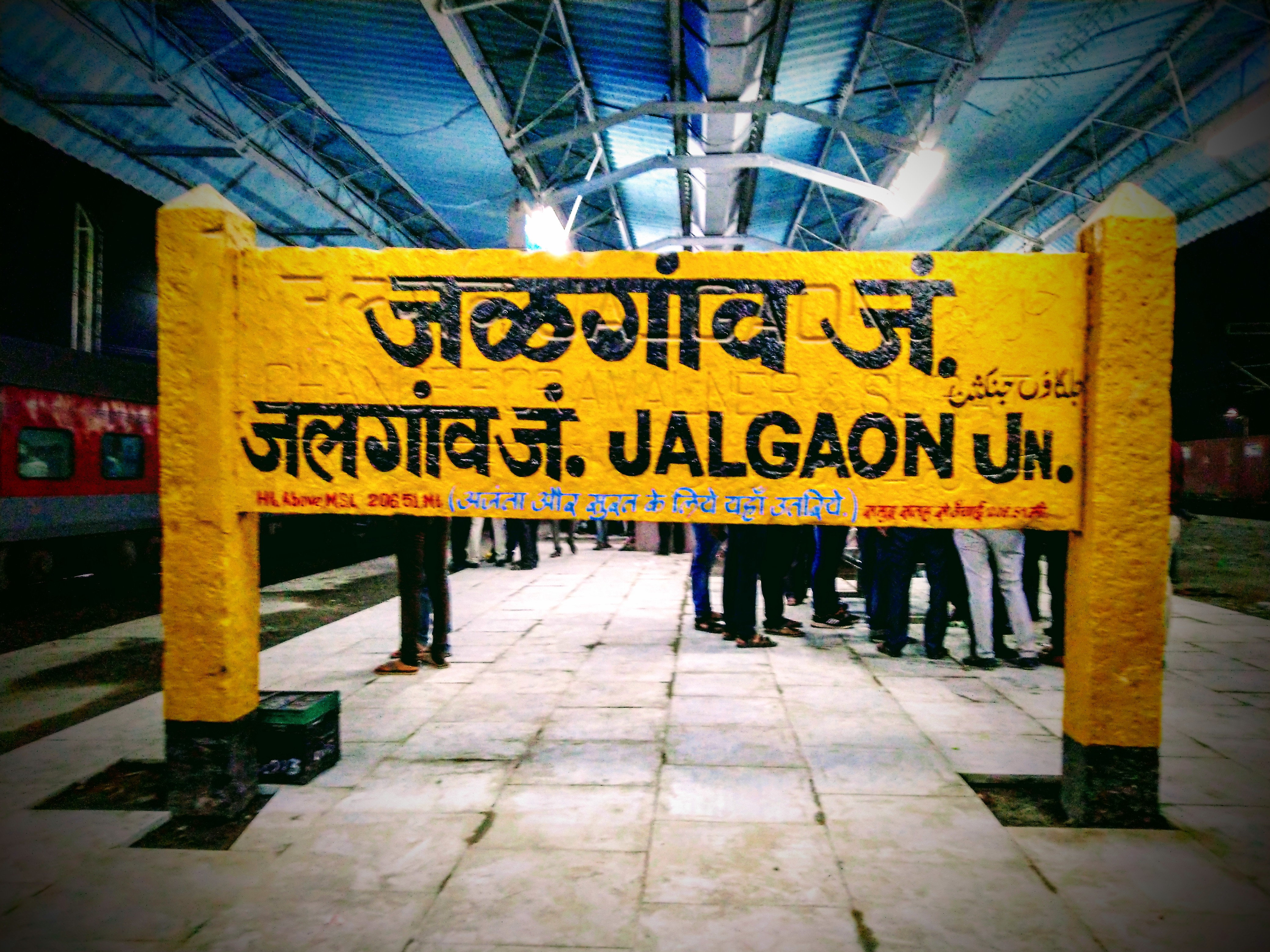 This is the picture of platform board which was clicked at Jalgaon Jn. Railway Station, Maharashtra.